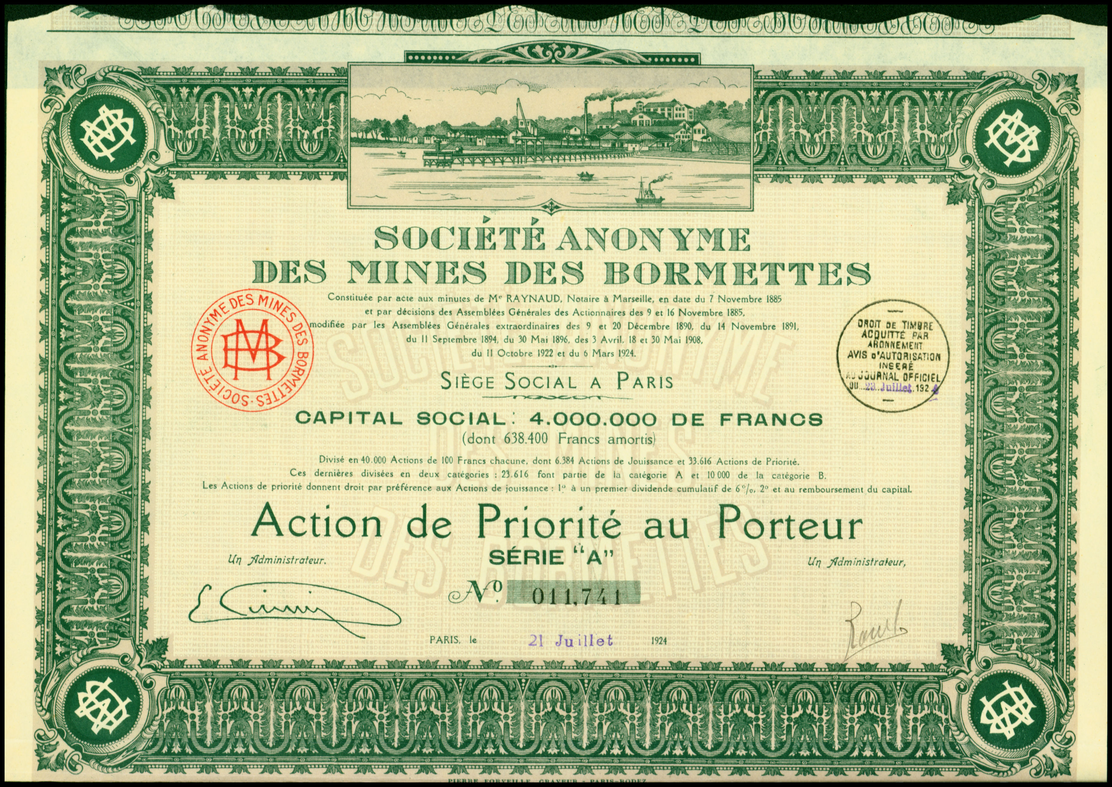 Preferred Share of the SA des Mines des Bormettes, issued 21. July 1924